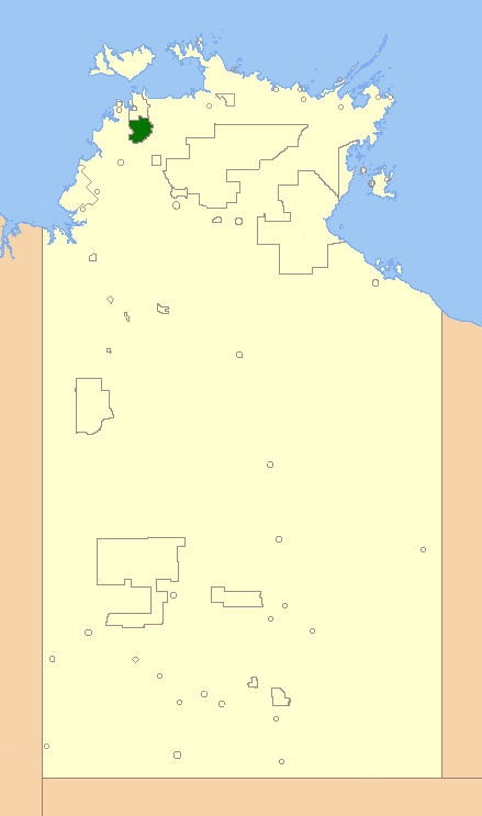 Location of the Local Government Area in the Northern Territory.